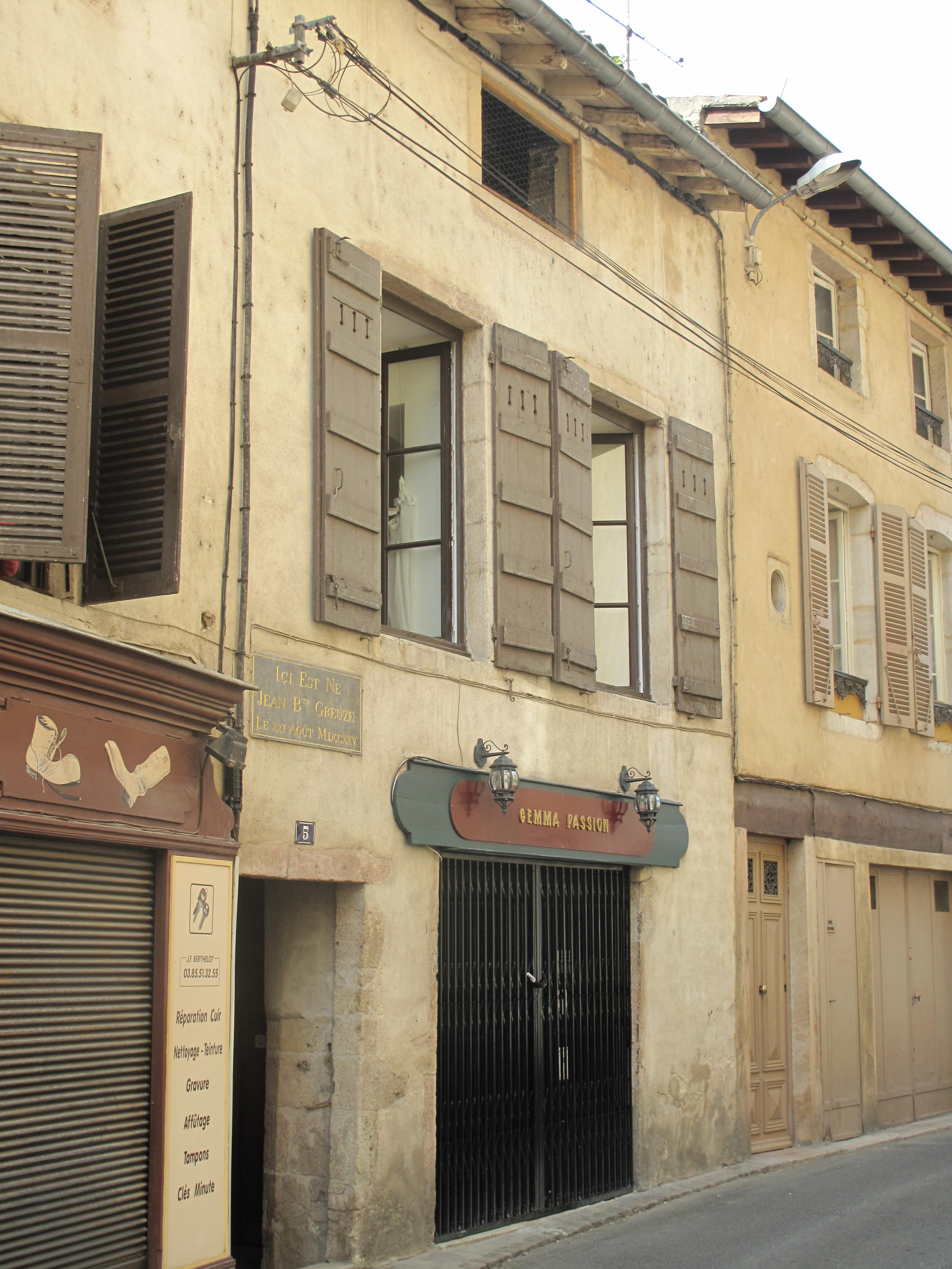 House where was born the French painter Greuze in Tournus, Saône-et-Loire, France